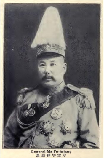 Ma Fuxiang (1876-1936)